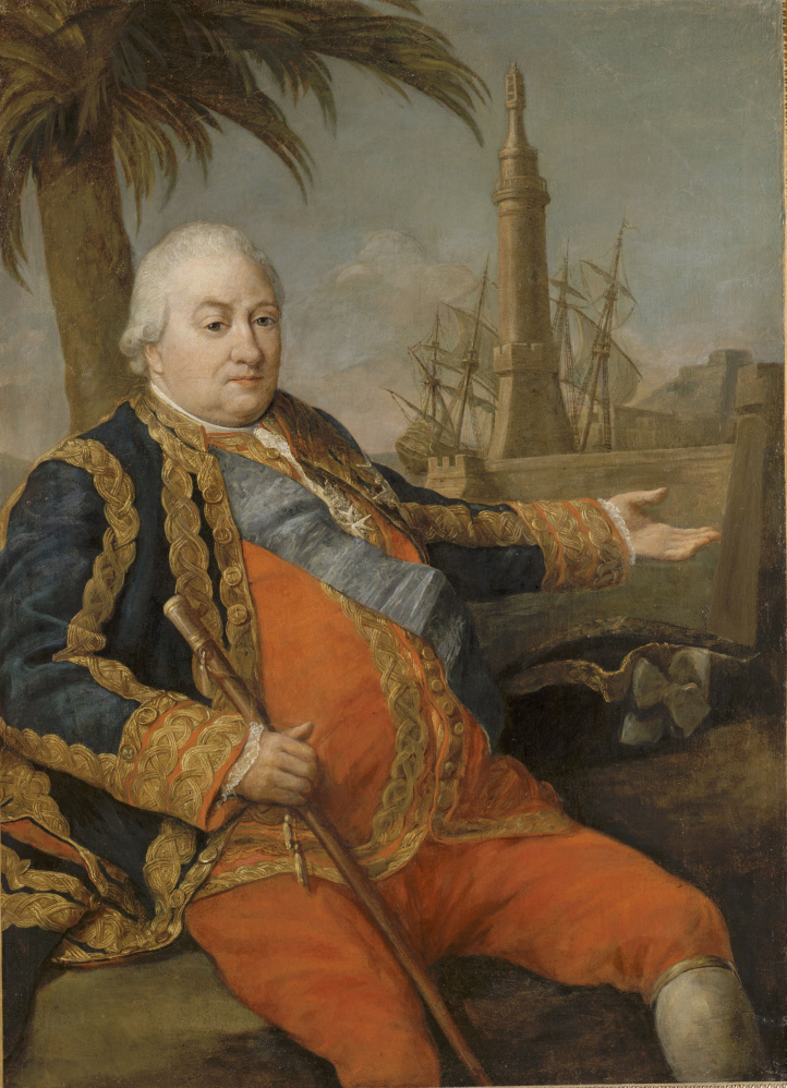 Probably made during the trip to Italy.